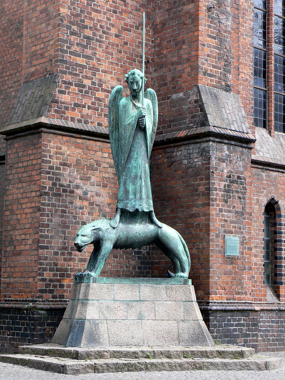 "Fighter Spirit" sculpture in Kiel. Sculptor: Ernst Barlach (1928), Bronze, Location: originally at the Holy Spirit Church (1928), removed by the Nazis (1937), reclaimed and placed at the St. Nicholas Church (1954).